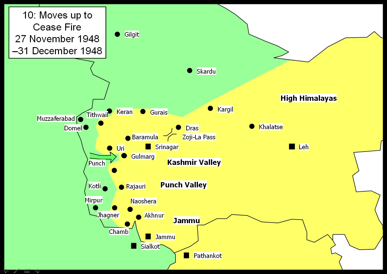 Author Mike Young